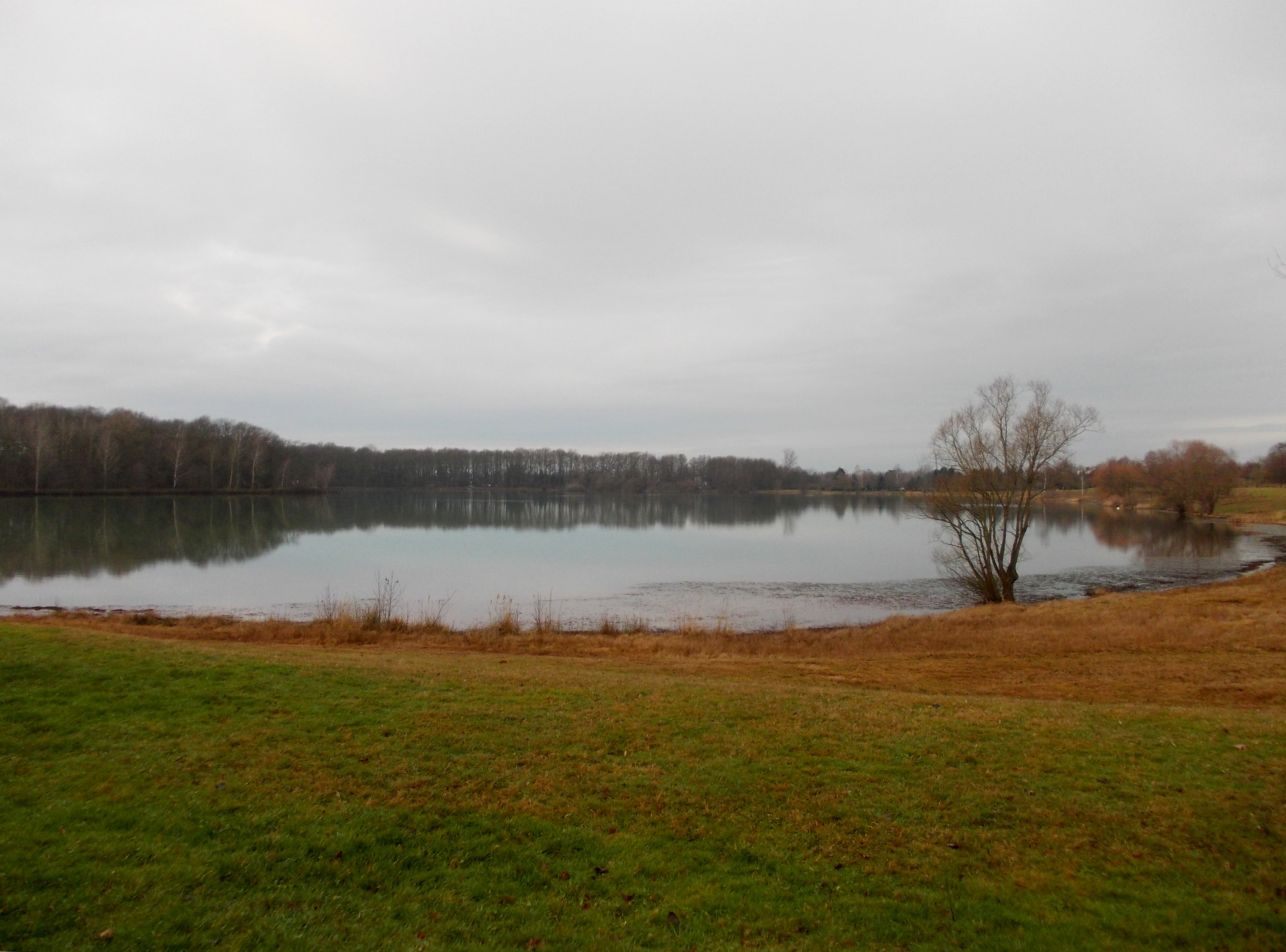 Albrechtshain Lake (Leipzig district, Saxony)